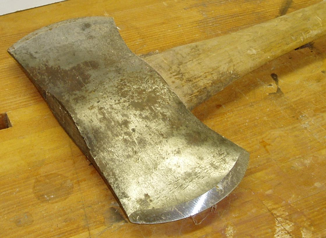 Picture of double bitted felling axe taken 16 October 2005 by Luigi Zanasi (myself) on my workbench using a Olympus digital camera.